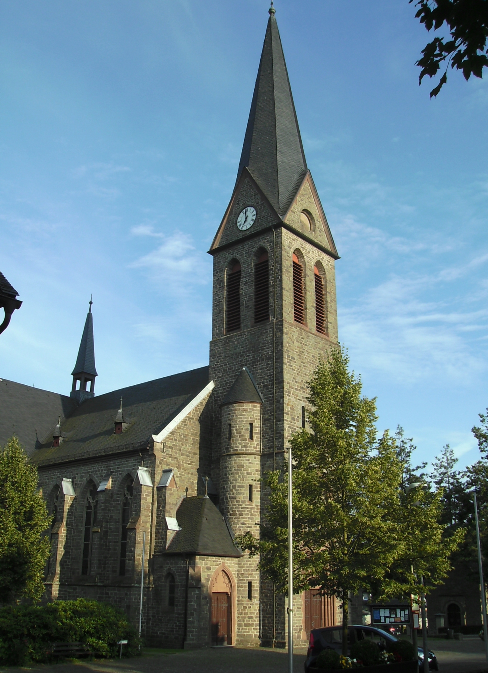 Chatholic church St. Margareta in Kuerten-Olpe, North Rhine-Westphalia, Germany